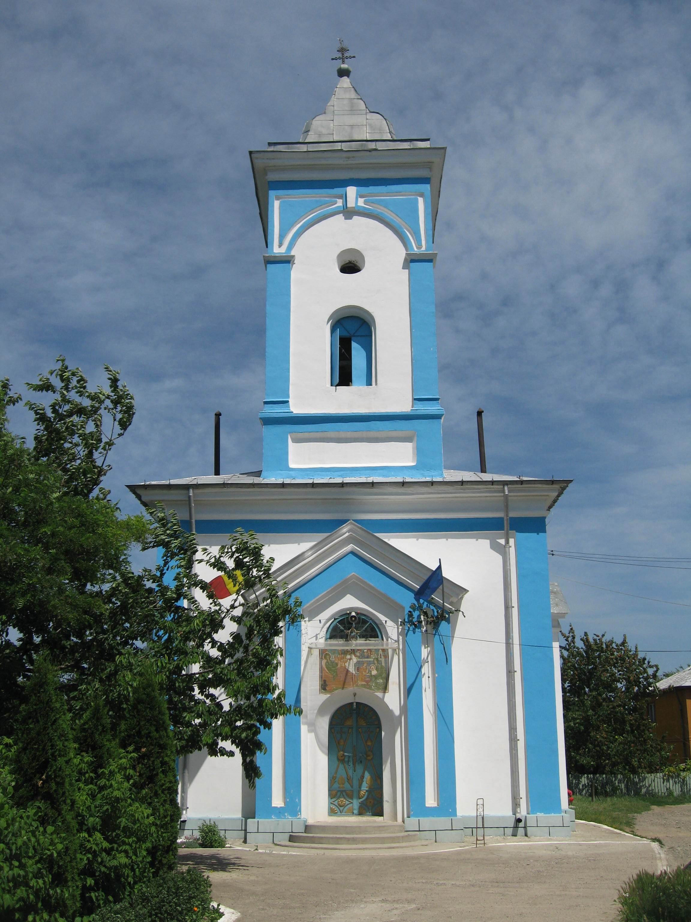 Biserica Naşterea Maicii Domnului din Miroslava, jud. Iaşi, România